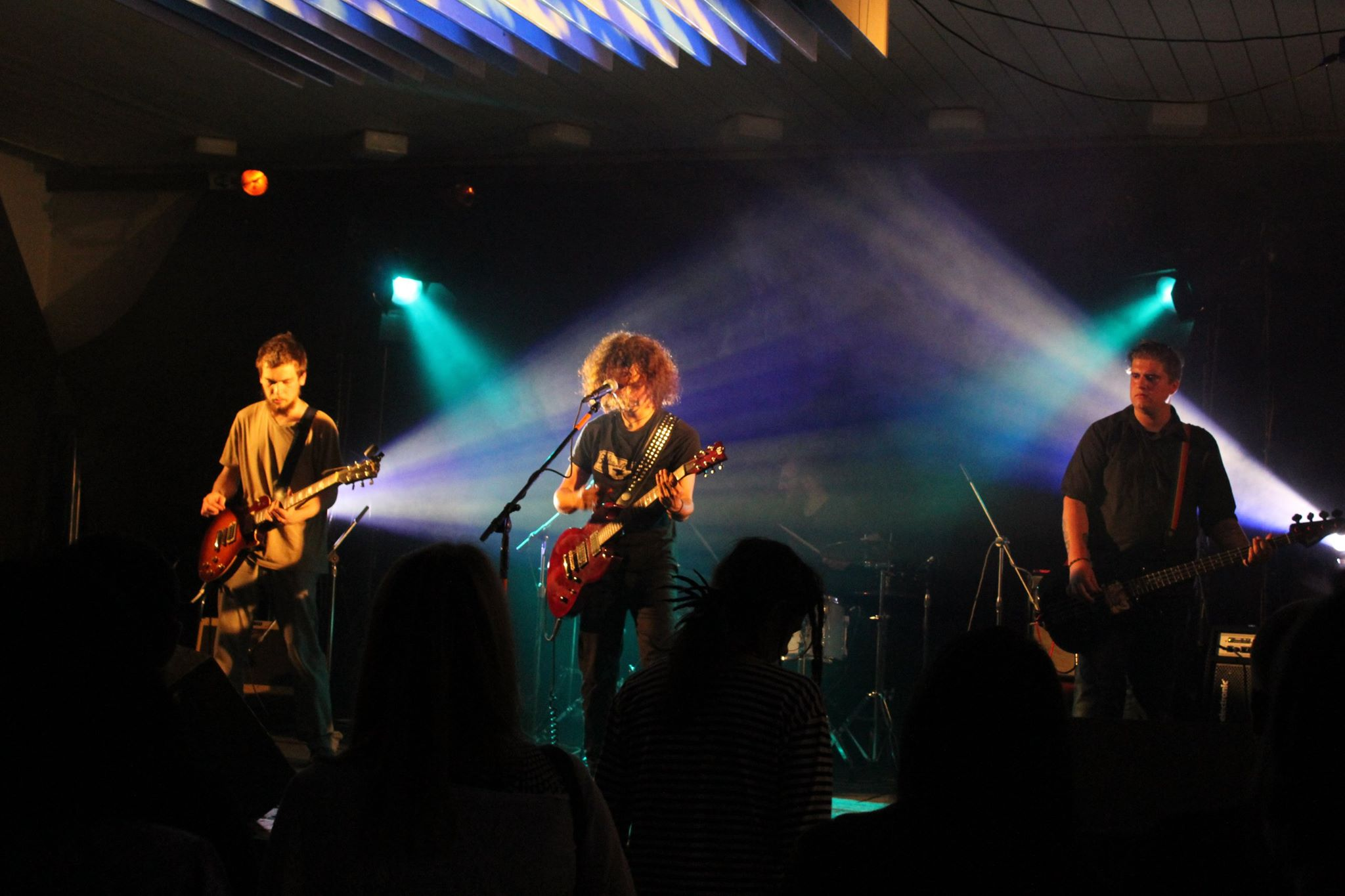 Dirty Old Dogs, concert in Olomouc, 2016